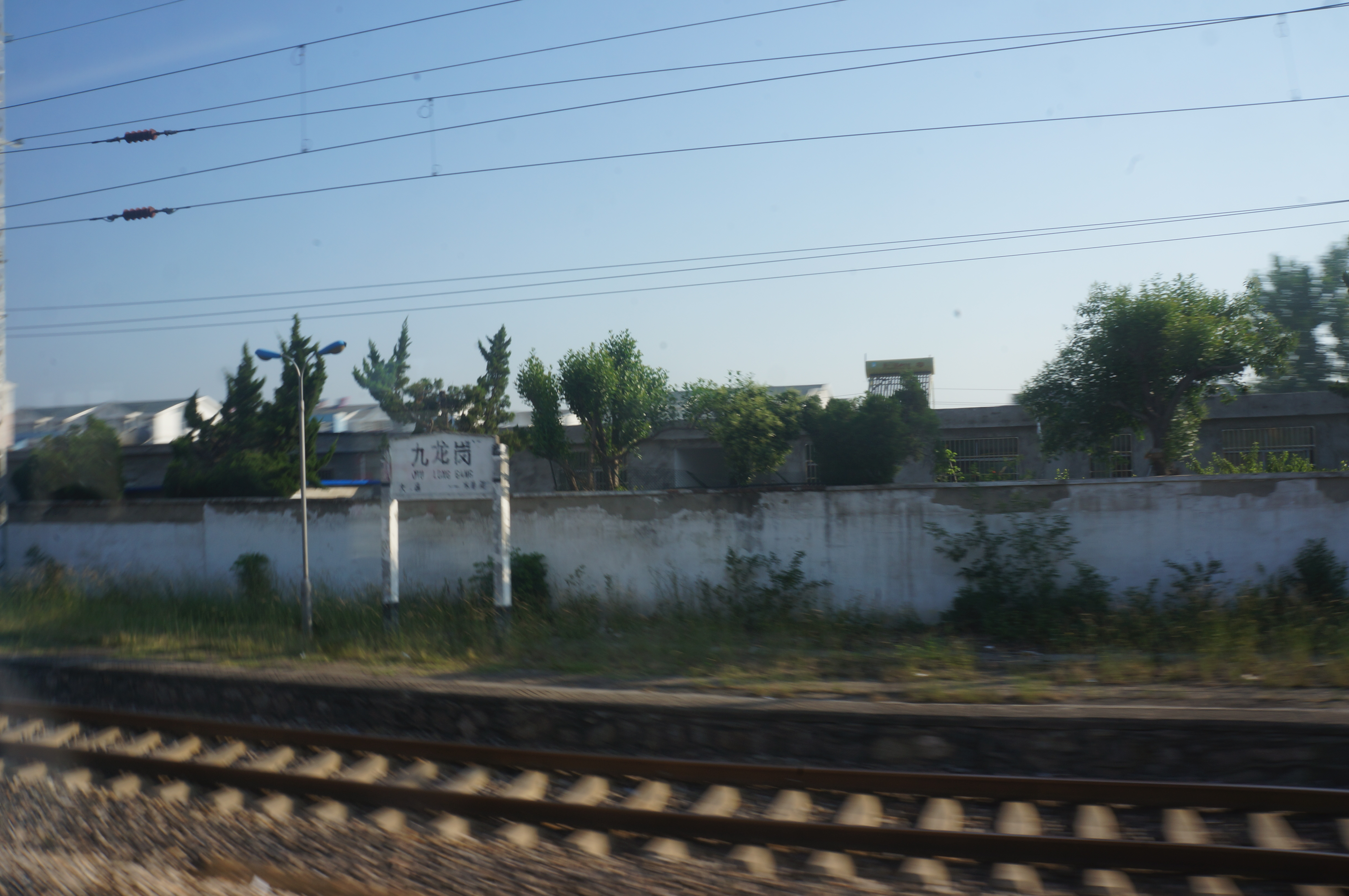 201705 Nameboard of Jiulonggang Station